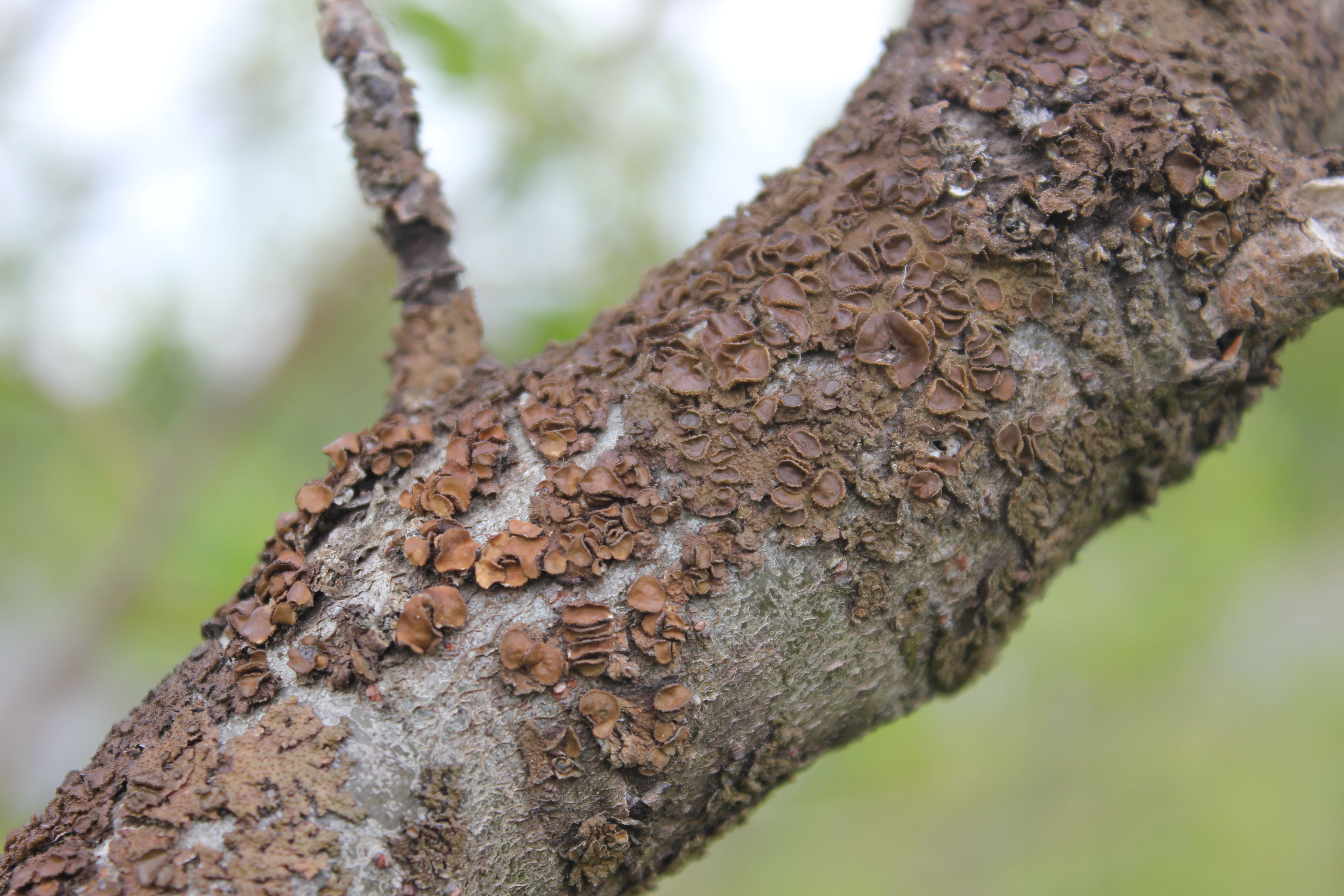 Melanohalea exasperata (De Not.) O. Blanco et al. Image location: Hvalfjordur Fjord, Iceland Growing on Salix, but I feel as though I saw it on a rock later on in the week as well…. Recognized by sight: regular white-tipped papillae and abundant apothecia Used references: British Flora For more information about this, see the observation page at Mushroom Observer.